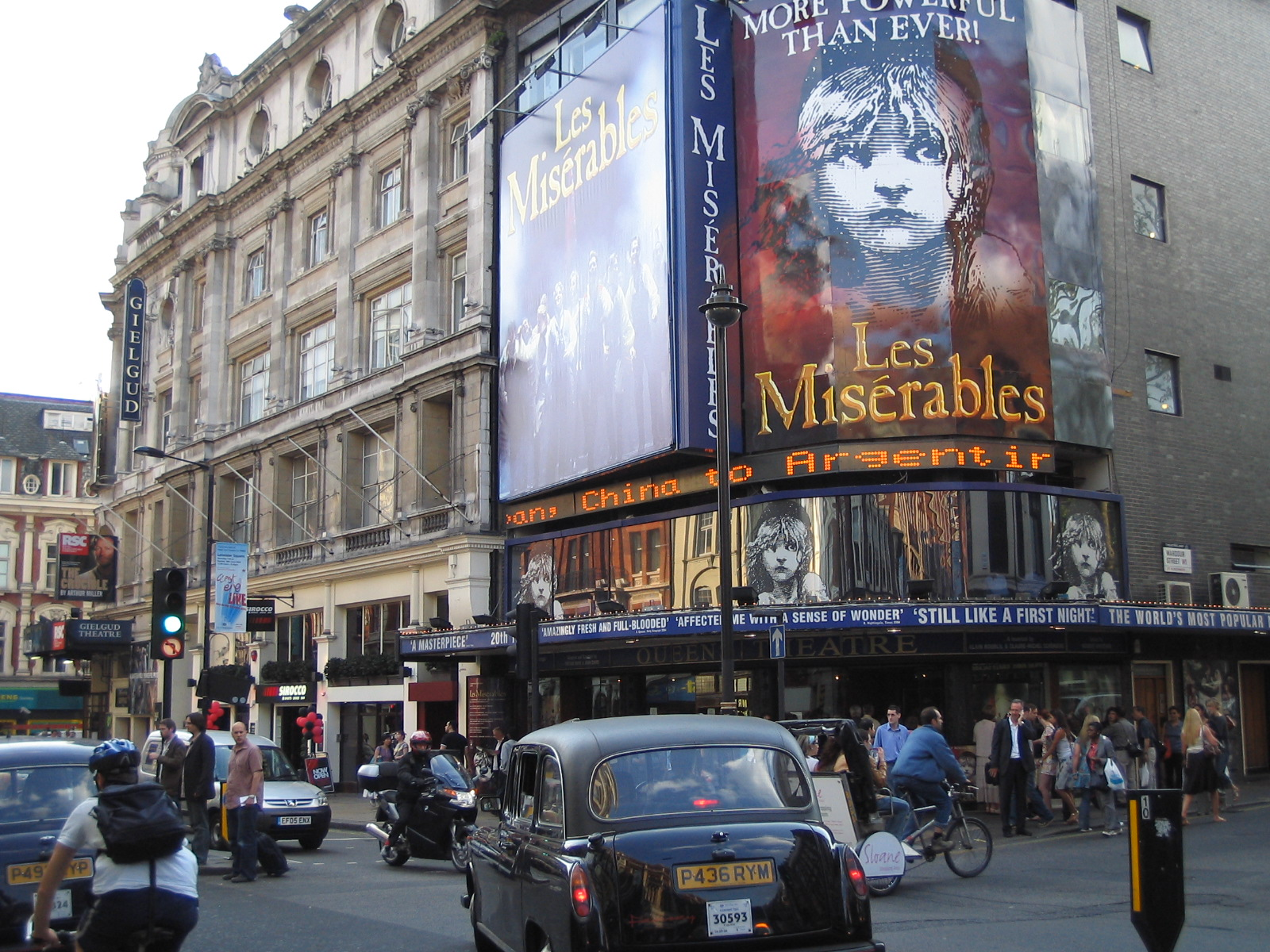 Les Miserables at Queen's Theatre, as seen in the day.